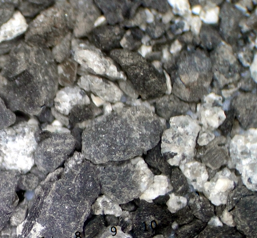 Falher shale and sandstone seen through microscope.